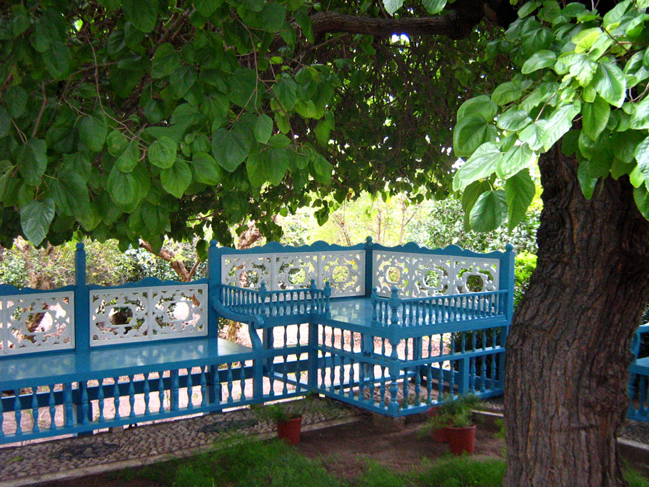 A view of the Ridván Garden near Akká (Acre), Israel, which was often used by Baha'u'llah. Taken by me during a 9-day pilgrimage in November 2006.